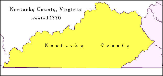 Map of Trans-Appalachian Virginia as it was from 1776 to 1780. Kentucky County (then alternately spelled Kentucke County) was created by the Commonwealth of Virginia from the western portion of Fincastle County beyond the Cumberland Mountains effective December 31, 1776, and was in existence until June 30, 1780, when it was subdivided and abolished.